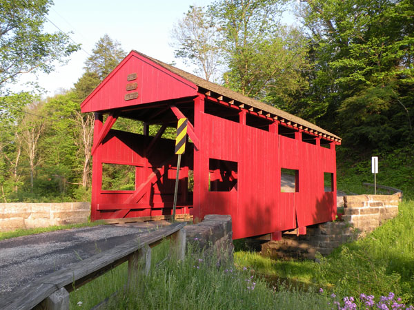 Picture of Lyle Covered Bridge located on Kramer Road spanning Brush Run in Hanover Township, Washington County, Pennsylvania. The sign on the bridge says, "The Lyle Bridge". Built in 1887, the bridge is listed on the National Register of Historic Places. Right beside the bridge there's a sign that says, "Hillman State Park - State Game Lands - Public Hunting - Pennsylvania Game Commission - Acres 3653".